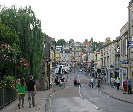 Market Place A view looking southwest across The Bridge, along Market Place as spectators gather for the 2006 Frome Carnival procession. The Blue House is on the left by the tree.